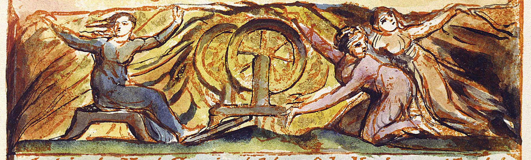 Jerusalem Plate 59 Detail Daughters of Los in their Loom